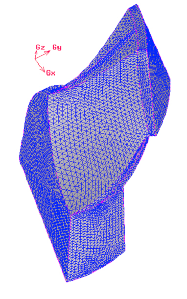 Mesh on the one channel of the Francis runner.